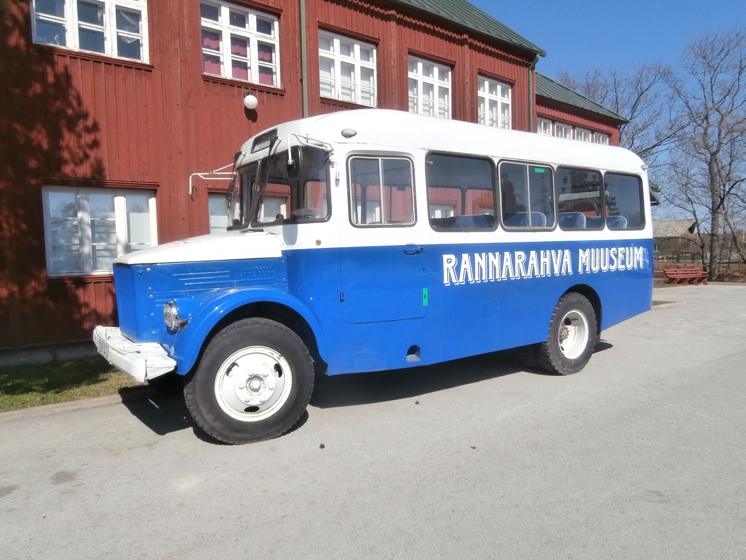 GZA-651 in front of the ‘Rannarahva muuseum’ in Pringi